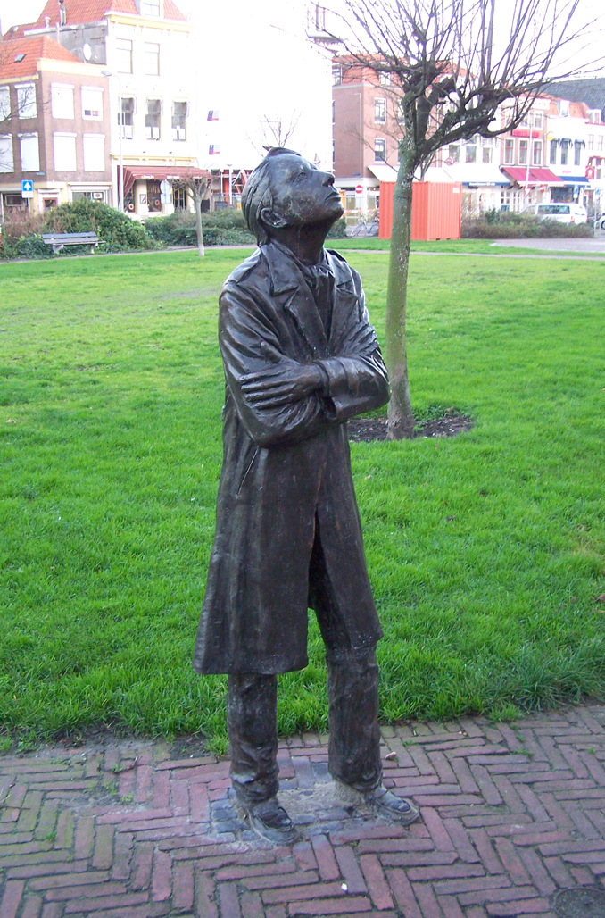 (previously uploaded by myself as the statue of poët Bellamy but...) "Mens en weer" (human and the weather) by Herman Bisschop from 1985.